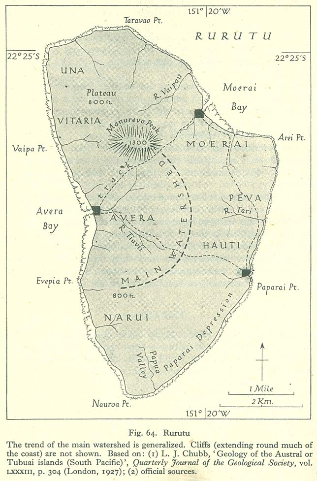 old map of Rurutu, Tubuai Islands, French Polynesia, Pacific Ocean